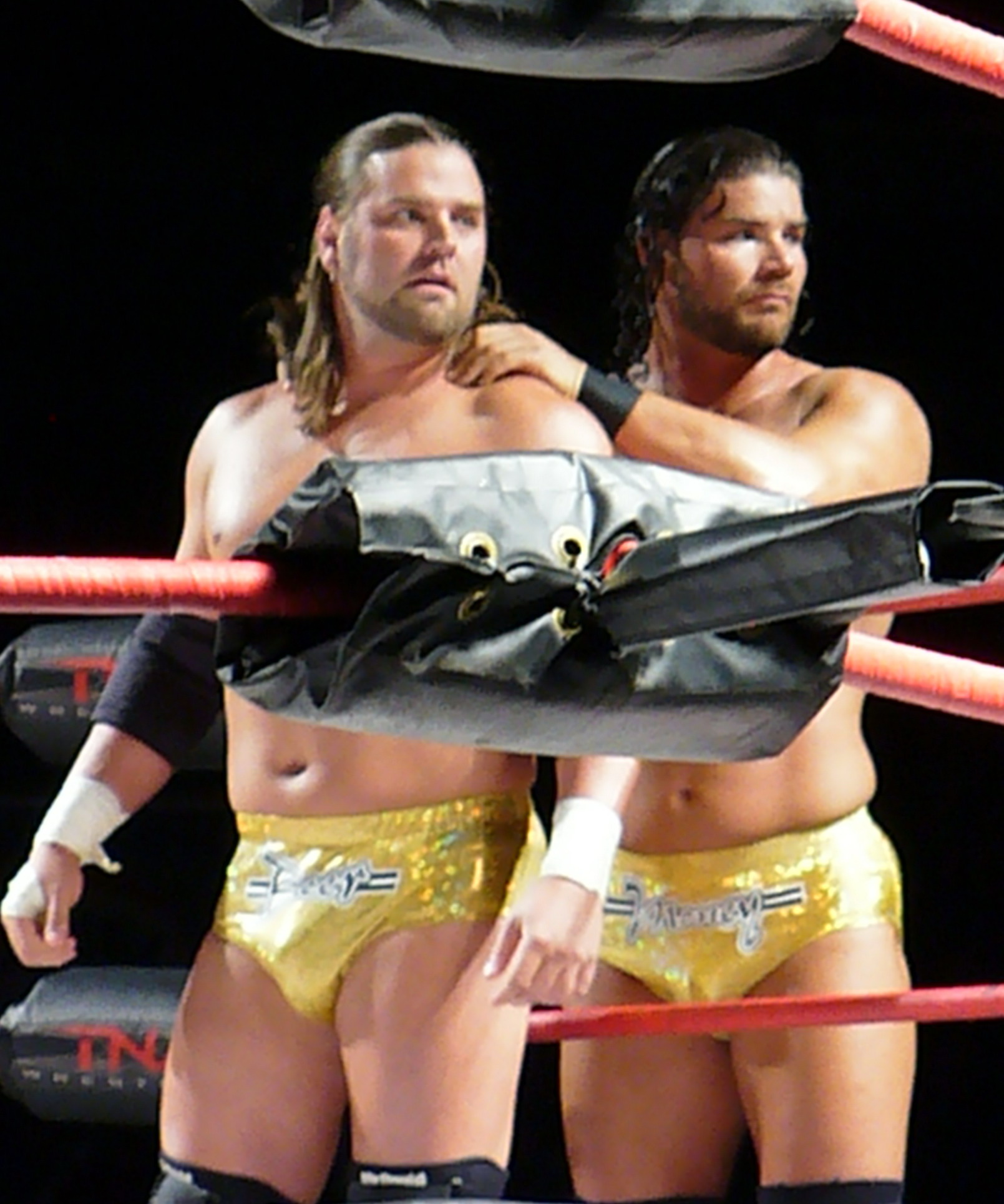 Professional wrestlers James Storm and Robert Roode, aka Beer Money